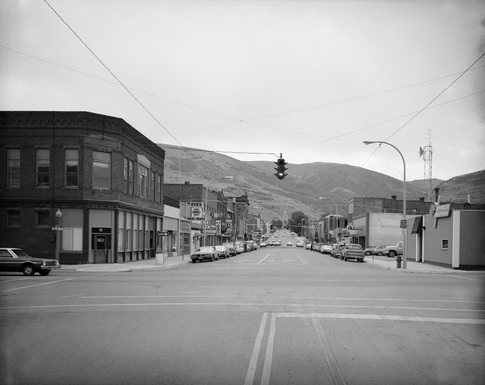 Southward along Main Street from the Commercial Avenue intersection in Anaconda, Montana, United States. The buildings on the left (eastern) side of the street are part of the Anaconda Commercial Historic District, which is listed on the National Register of Historic Places.